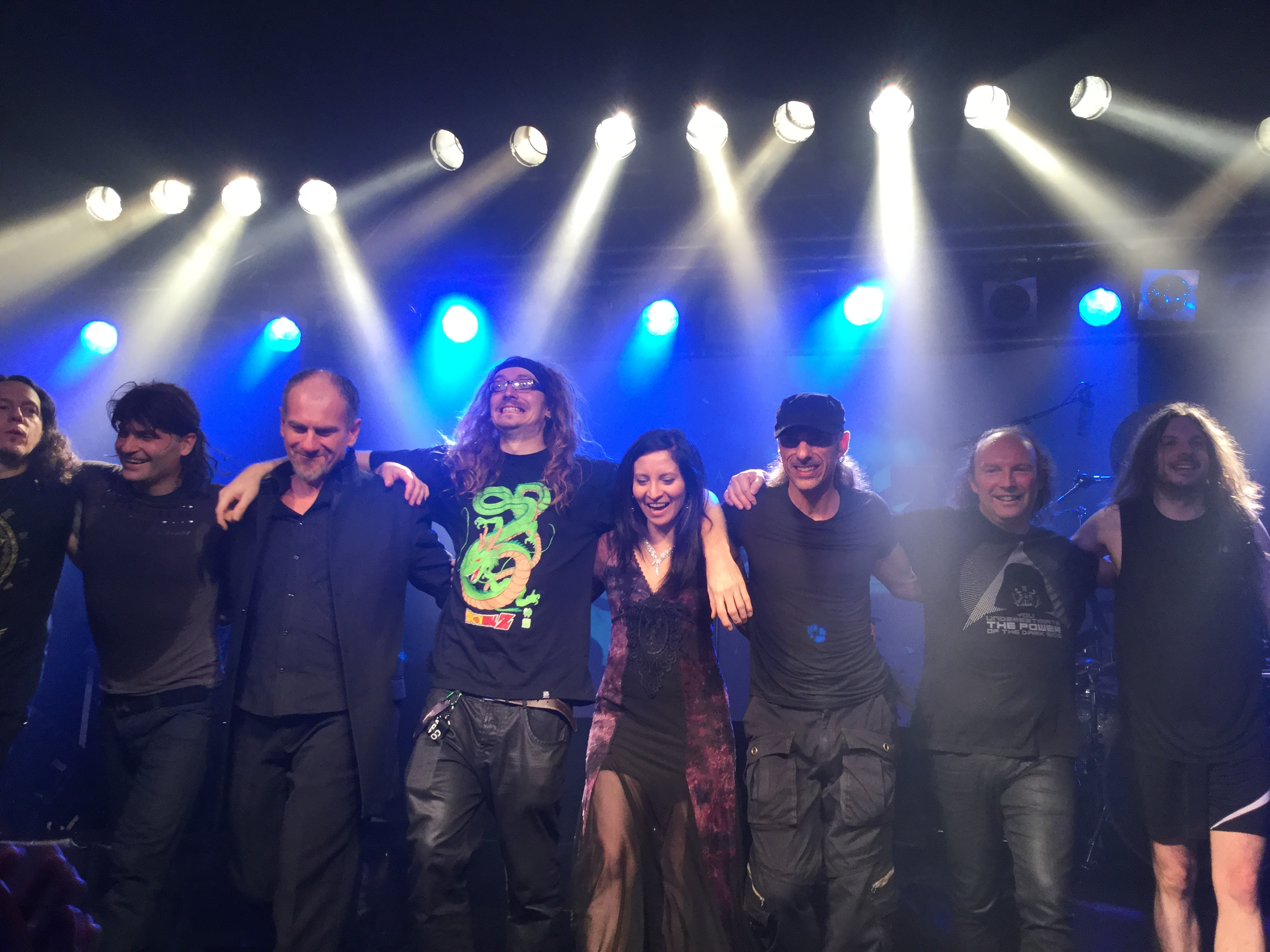 Luca Turilli's Rhapsody live in Munich (2016): Alessandro Conti, Luca Turilli, Riccardo Cecchi, , Emilie Ragni, Patrice Guers, Dominique Leurquin and Alex Landenburg